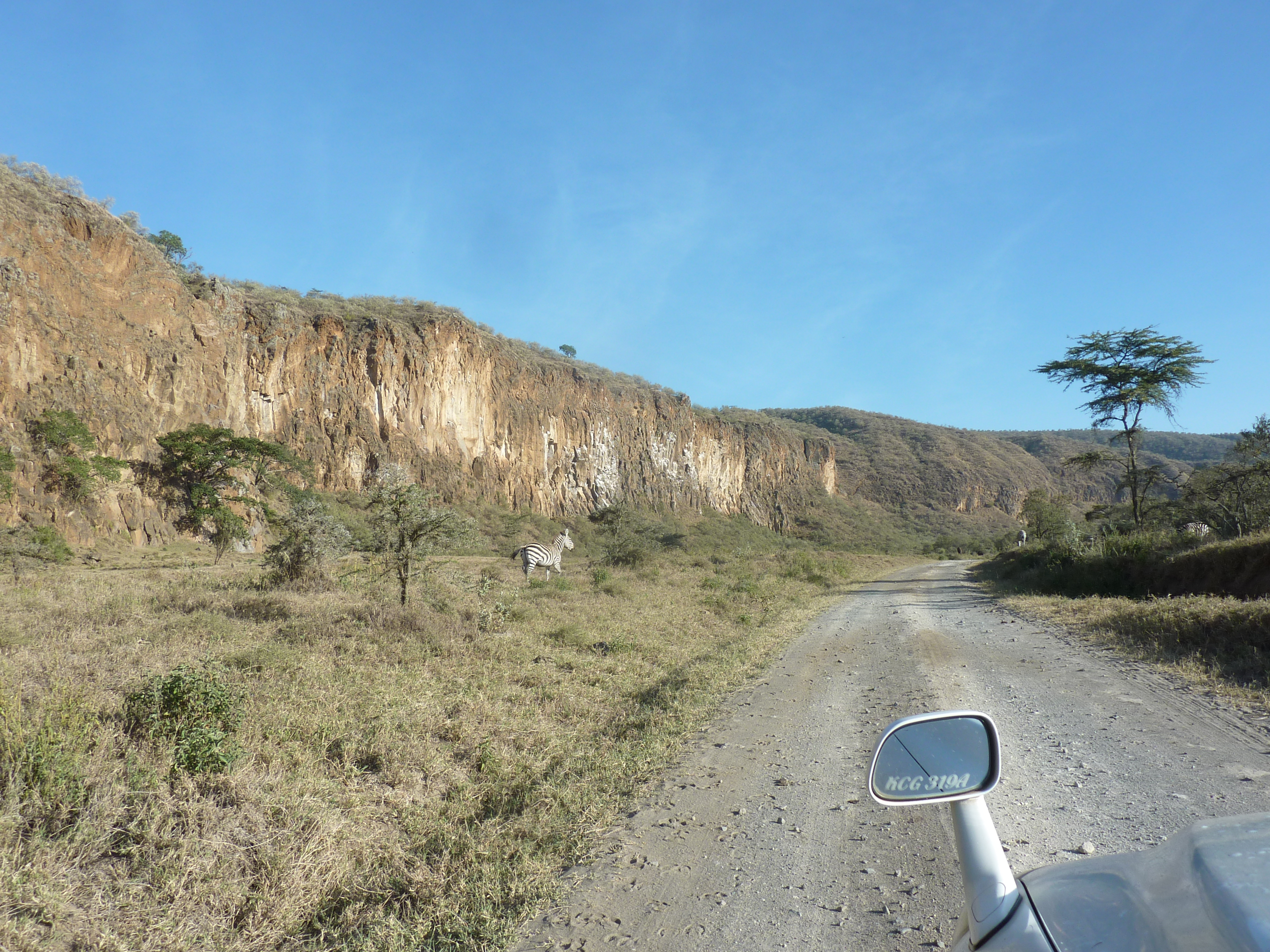 This is an image with the theme "Africa on the Move or Transport" from: Kenya